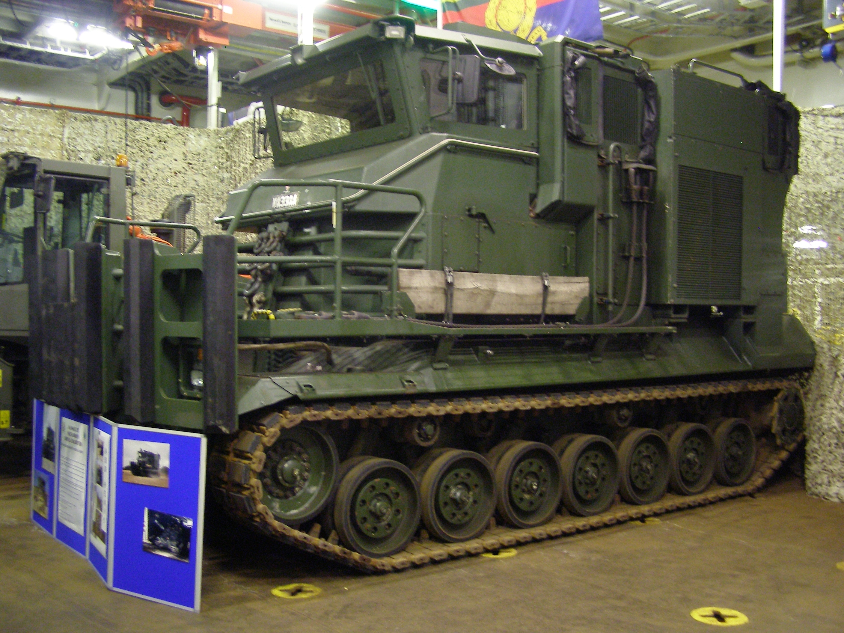 Gdynia - Beach Recovery Vehicle "Hippo" of the Royal Marines 4 Assault Squadron at the HMS Bulwark